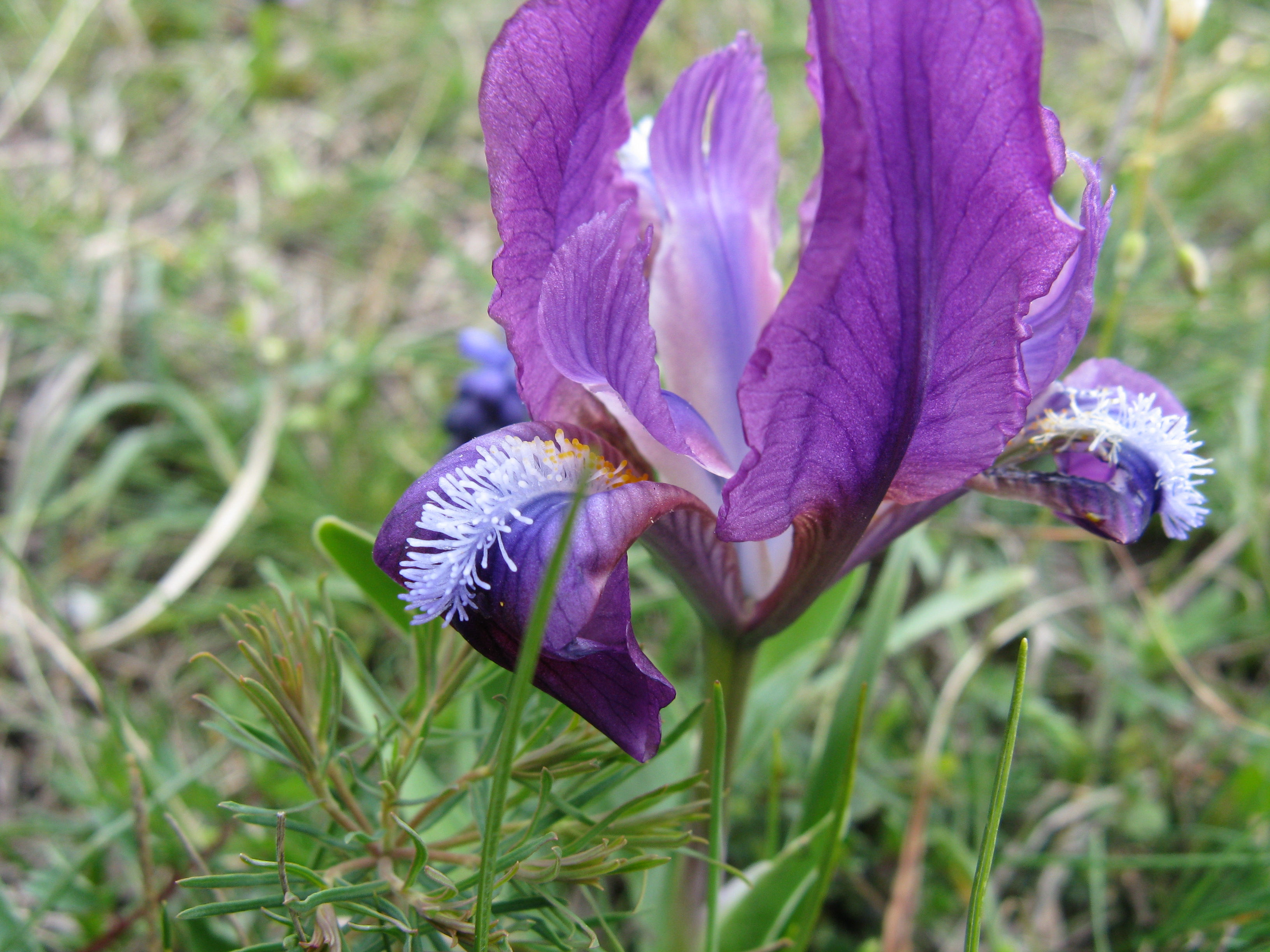 Iris aphylla in April, from Kő-hegy, Budaörs, Hungary